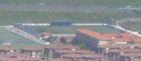 Juan Hormaechea football ground (Santandé, Cantabria), home to SD Atlético La Albericia